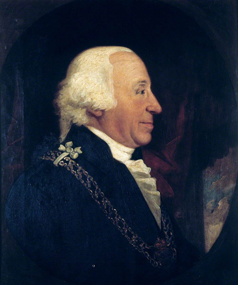 Portrait of Edward Colman (c.1734–1815), English army officer, politician and official.